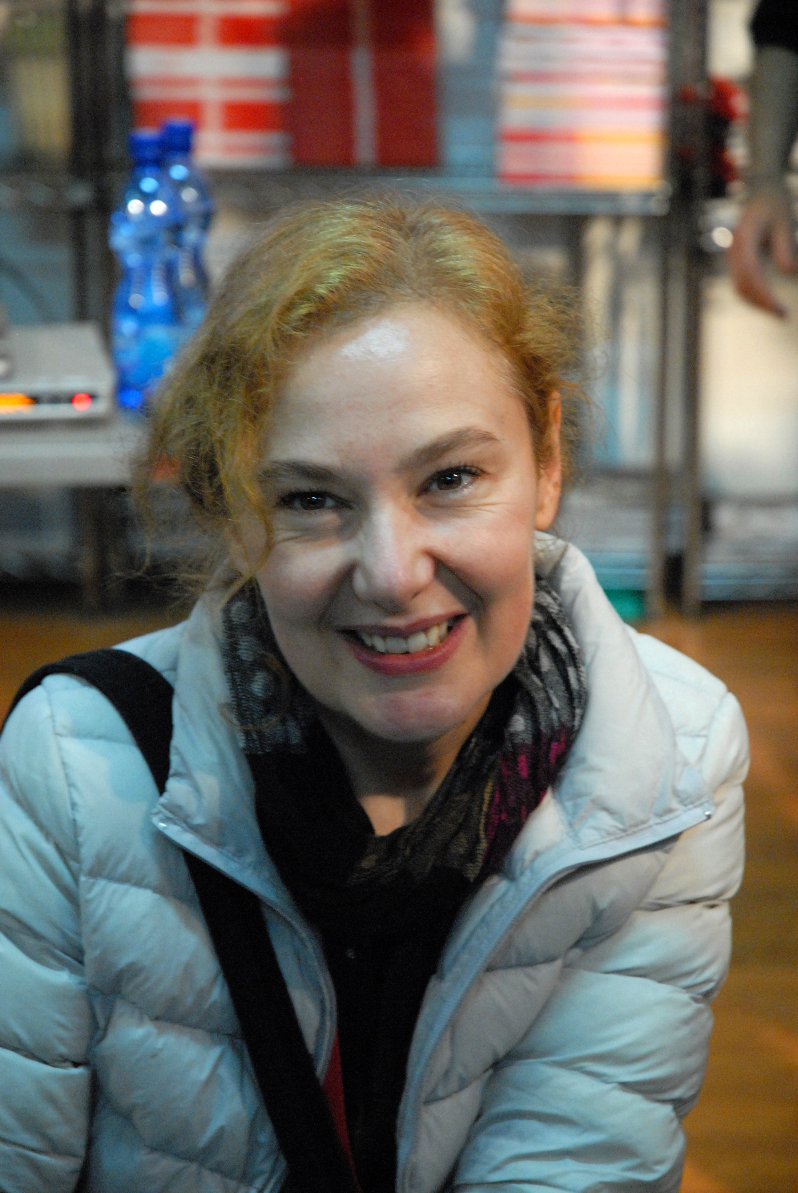 Silvia Ziche Photo taken during Lucca Comics&Games 2010